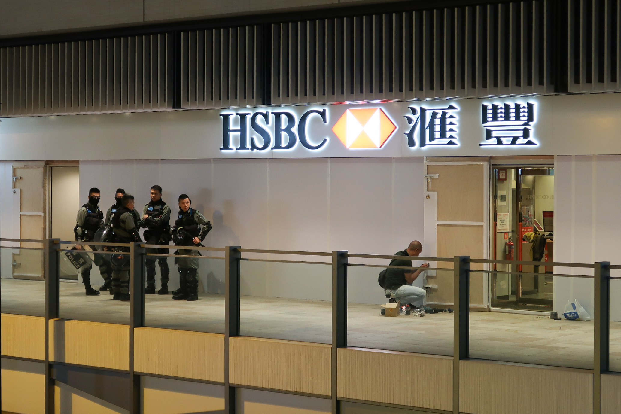 HSBC Shatin Centre branch outside riot police